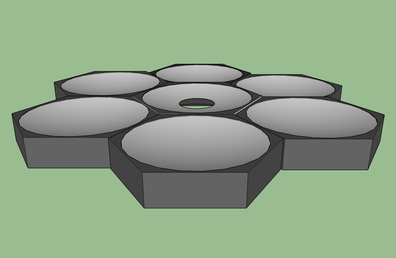 3D model of a seven mirror assembly